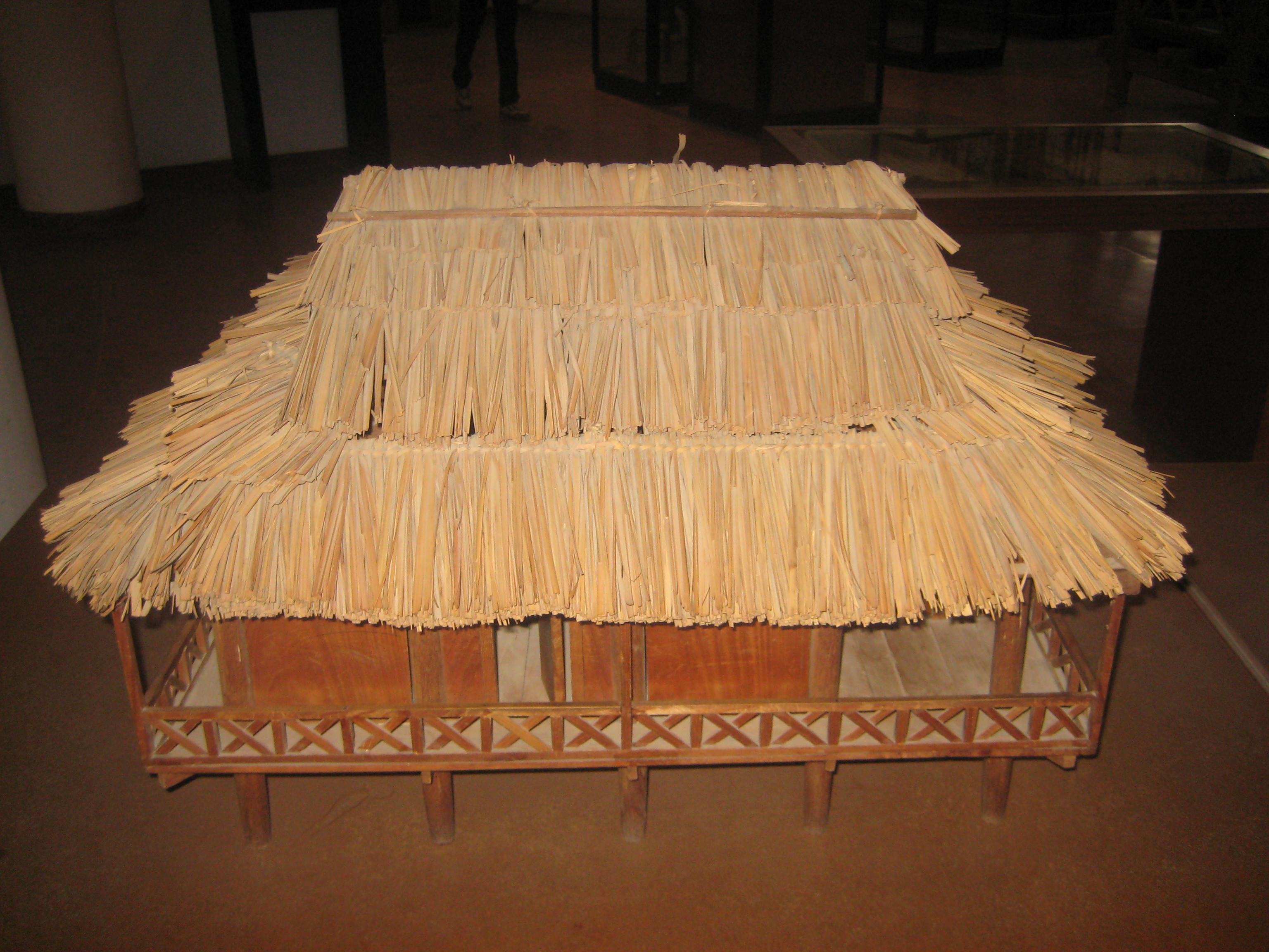 In front of White Thai house (Lai Chau, Vietnam)